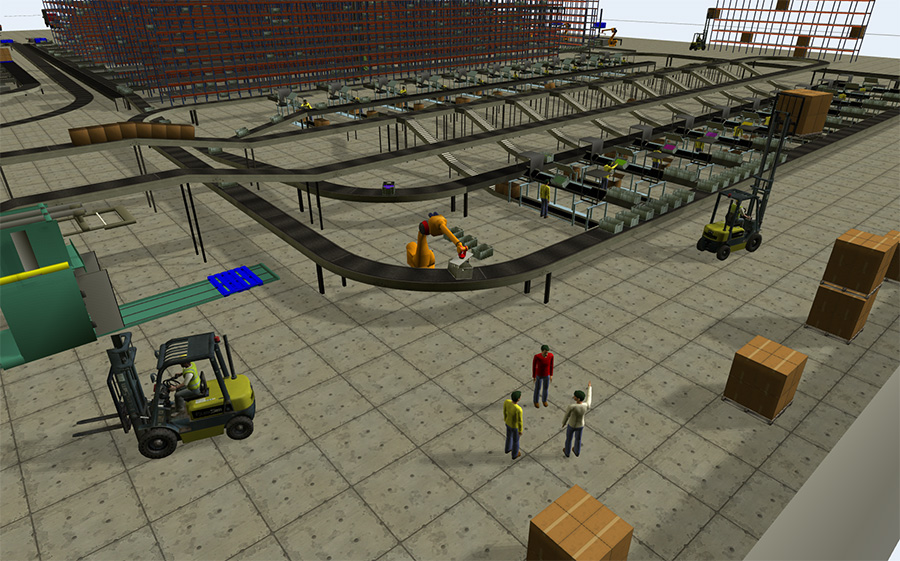 A model of a factory floor created in FlexSim's 3D simulation environment.